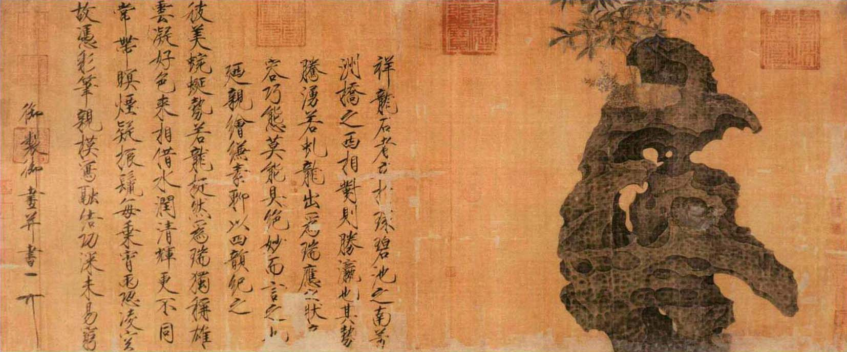 This depicts a water-eroded Taihu rock, upon which plants are growing and the characters "auspicious dragon" (祥龍) is inscribed in regular script.